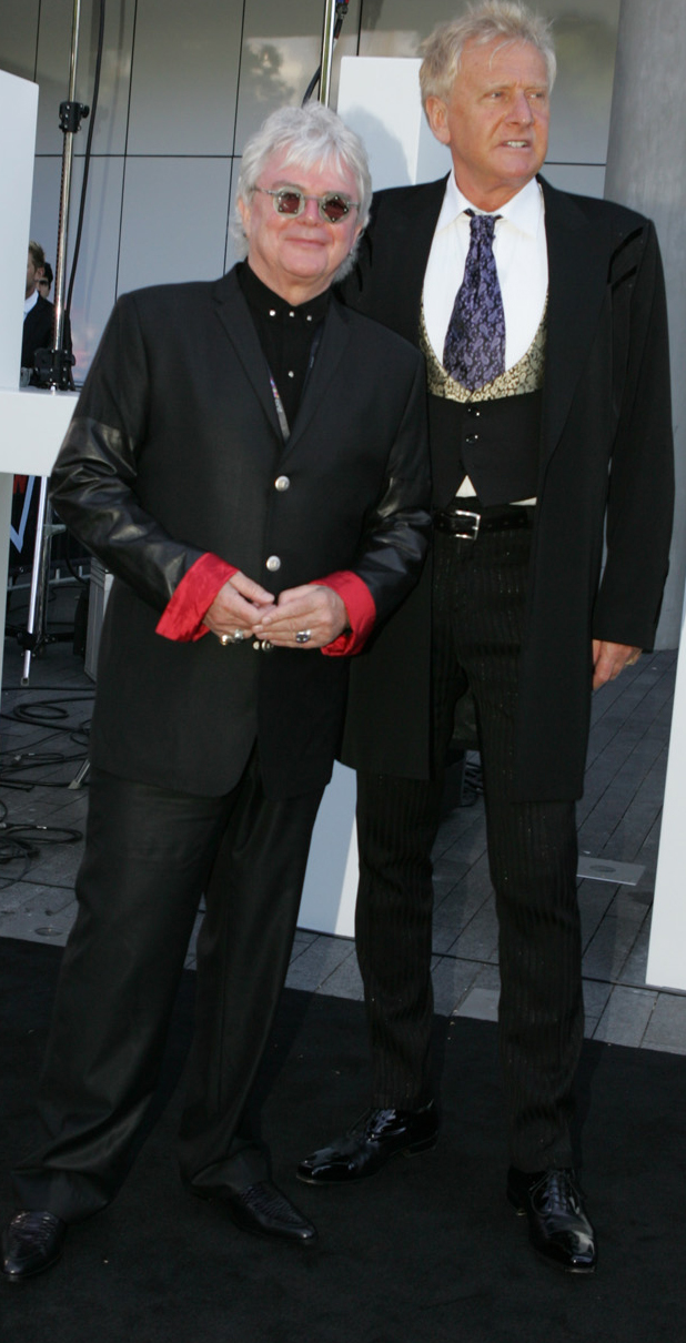 Air Supply at the ARIA Awards 2013 ceremony, 1 December 2013, Star Event Centre, Sydney